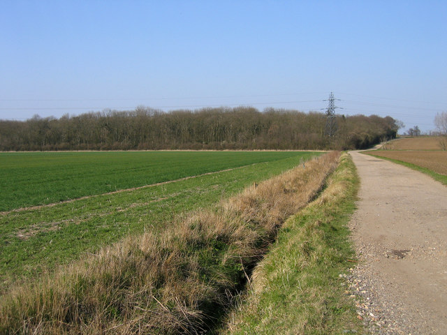 Ermine Street north of the A428 in Cambridgeshire, near to Croxton, Cambridgeshire, Great Britain. The course of the Roman road forms the St Neots Rural and Eynesbury Hardwicke parish boundary; view N towards Fox Holes.